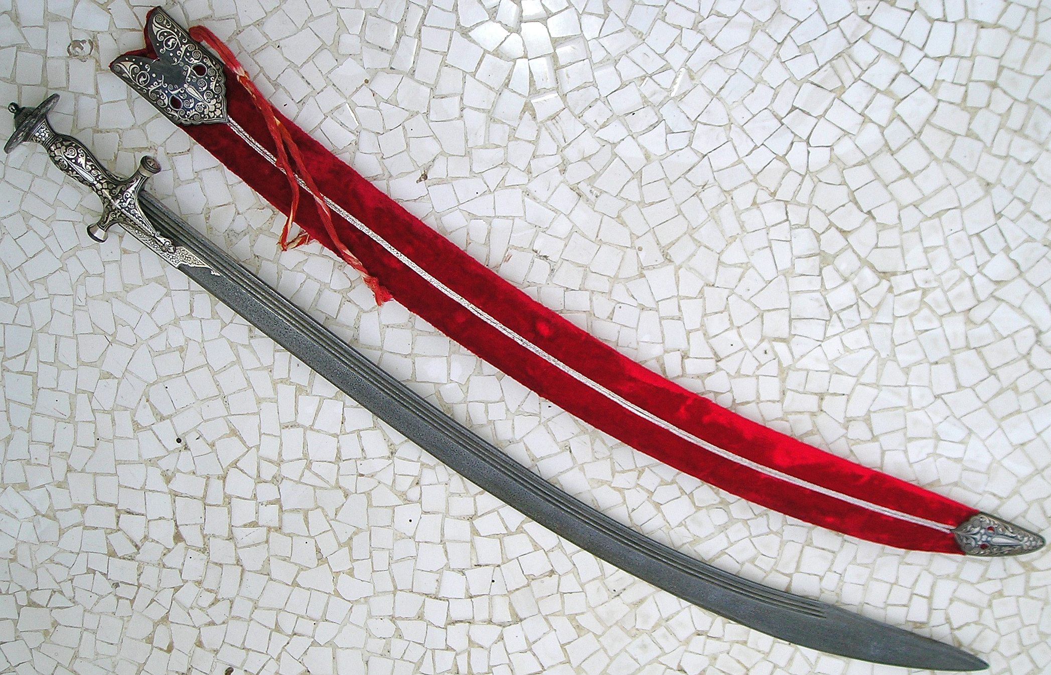 Indian tulwar / talwar sword with pattern welded blade and silver koftgari decorated hilt, matching silver koftgari scabbard throat and chape, from user Archit Patel's personal collection. Example of a talwar, a very good design combining traditional sword and sabre. The blade length is 32 inches. about 200 years old and battle tried.